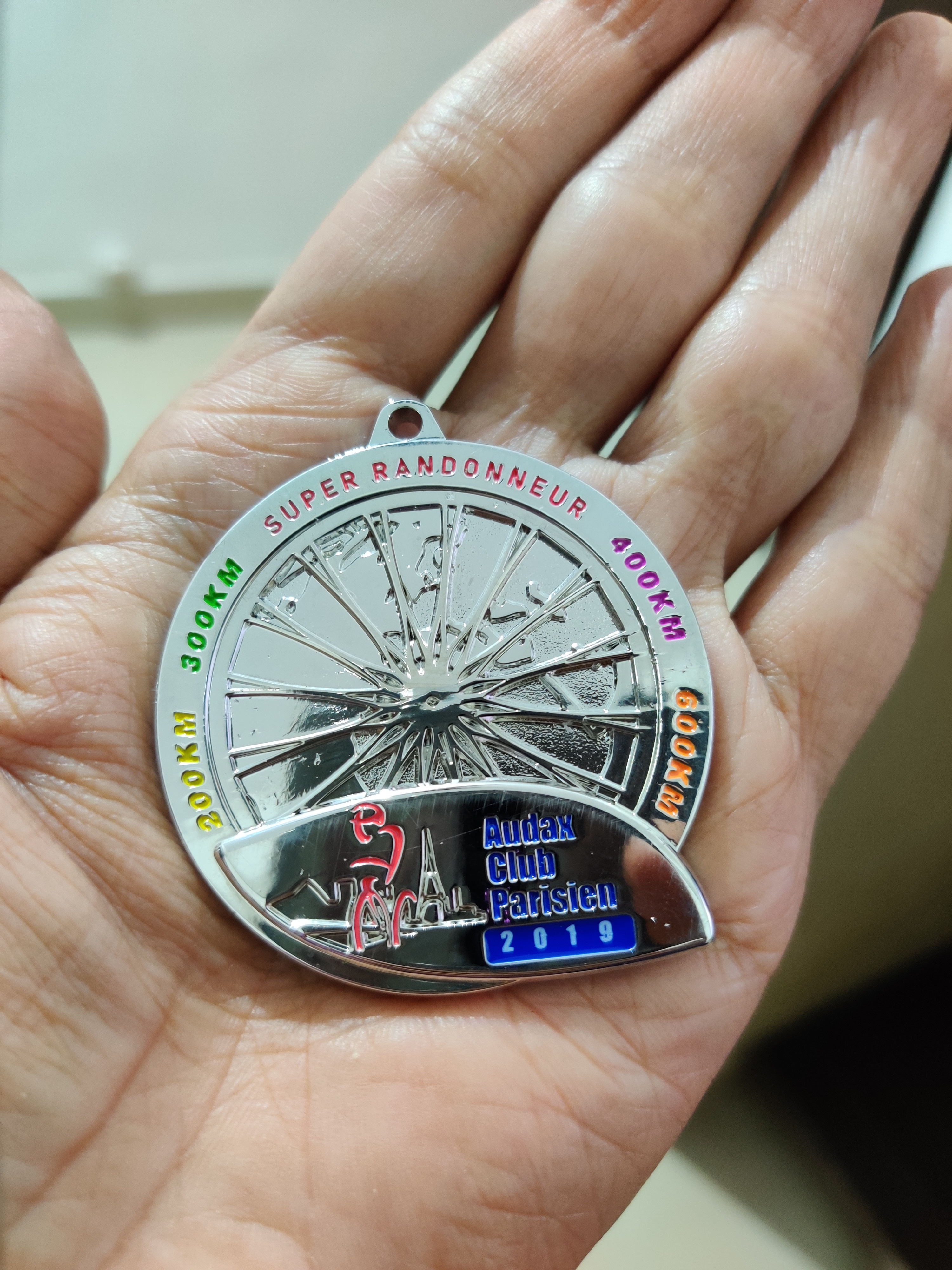 Super Randonneur (SR) medal - 2019